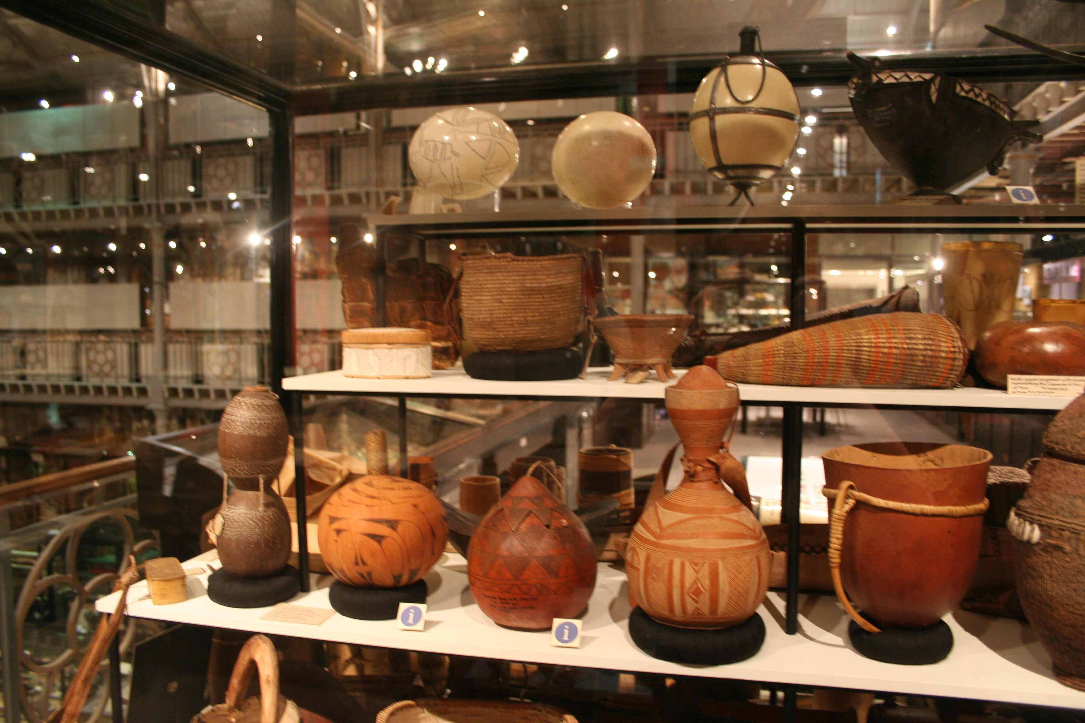 Pitt Rivers Museum, Oxford